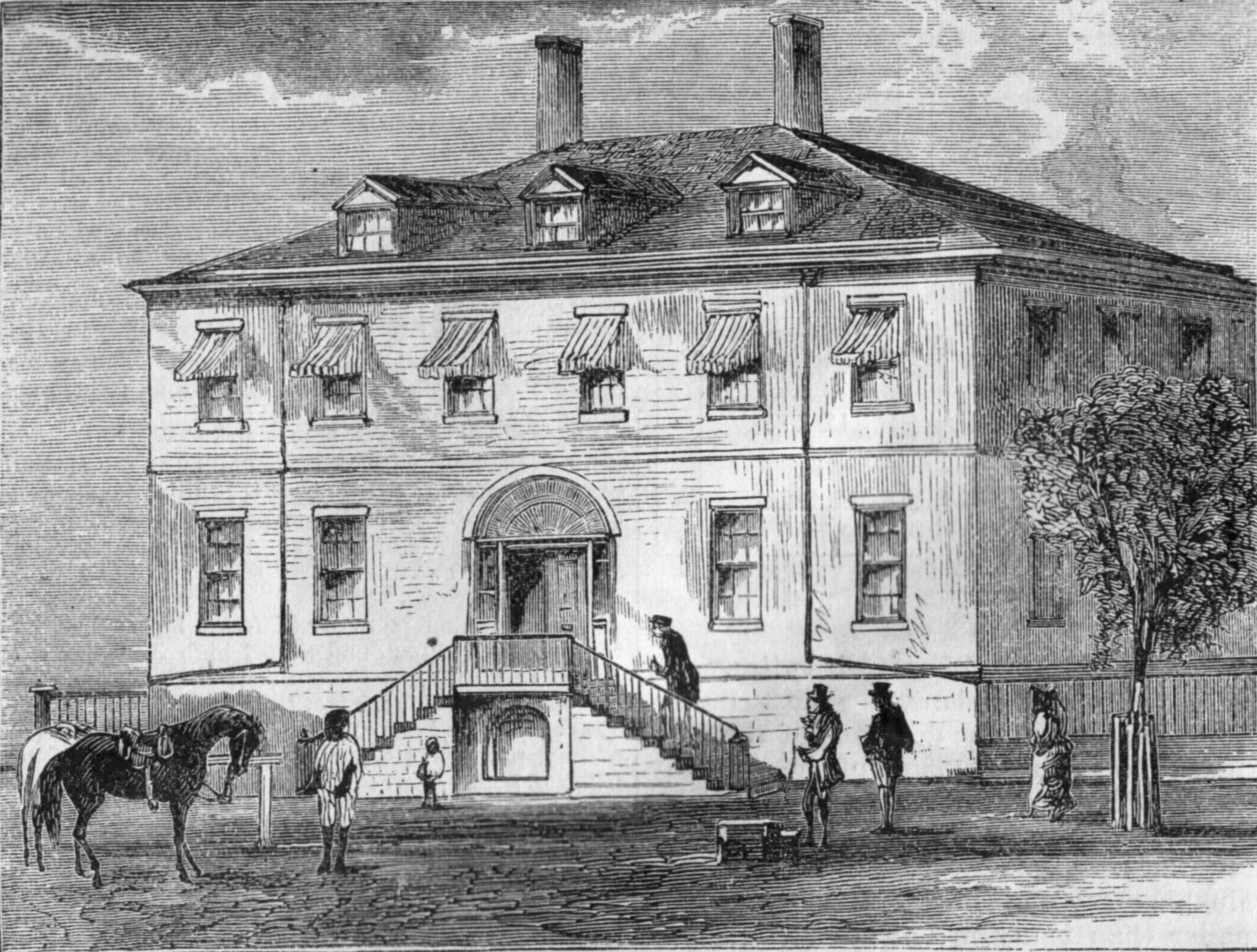 Engraving of the U.S. Treasury building in 1804.